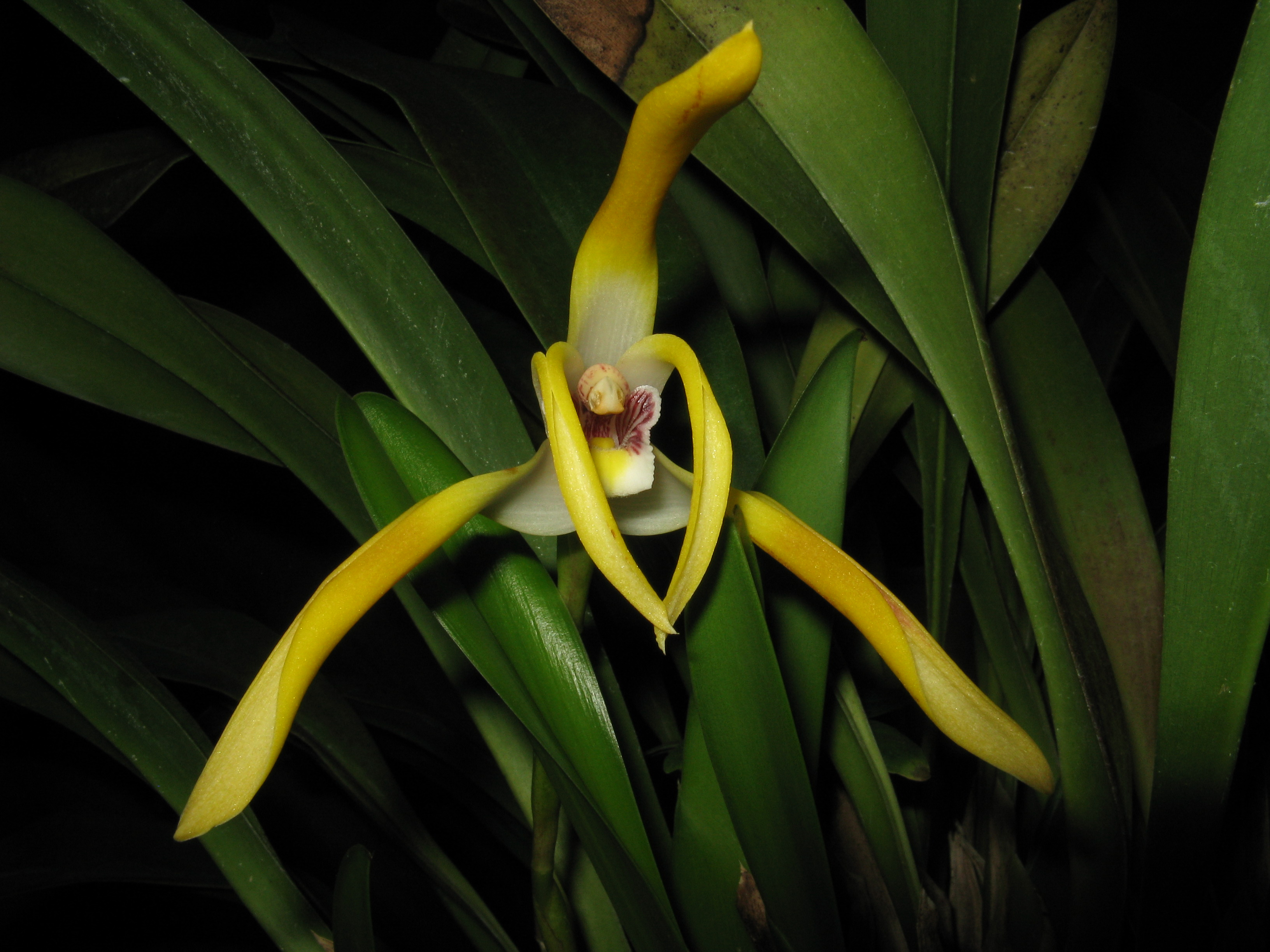 Scientific name Maxillaria triloris Place:Osaka Prefectural Flower Garden,Osaka,Japan